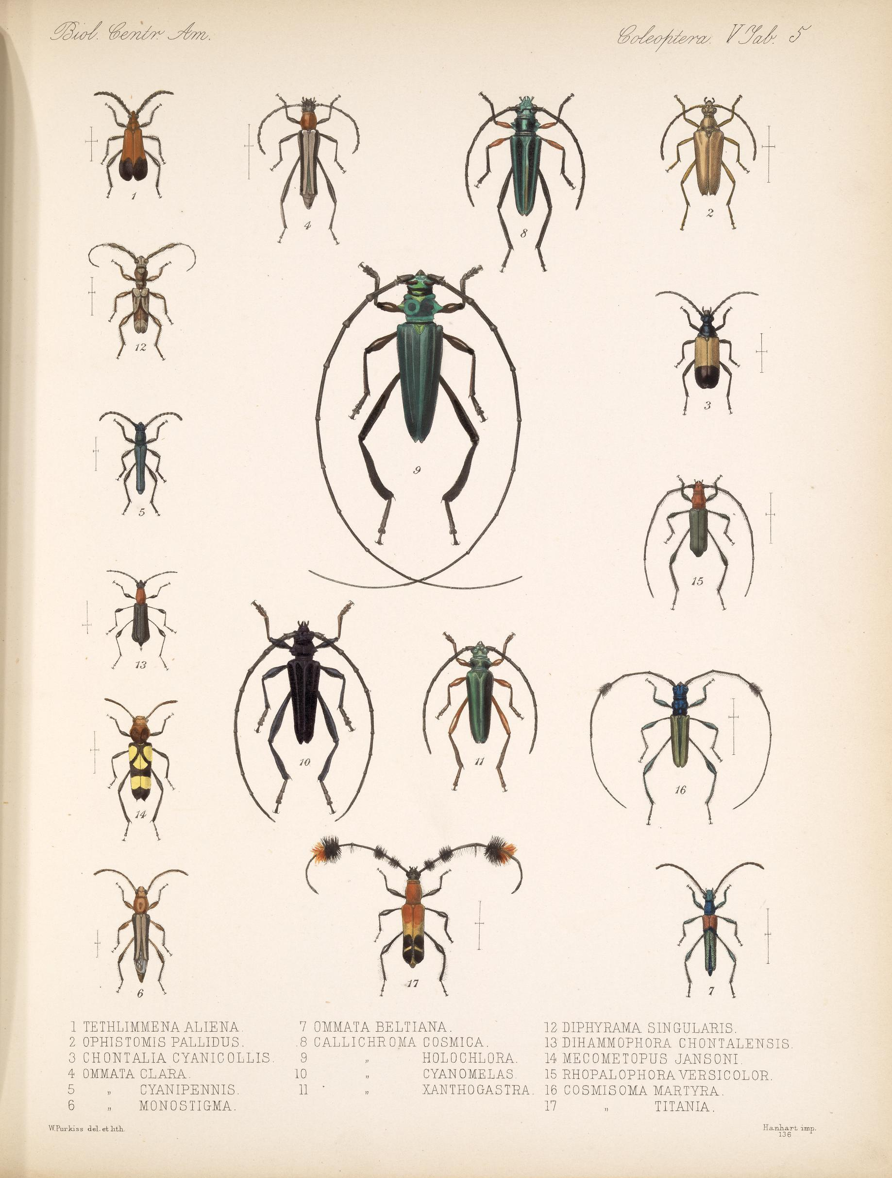 See image for index to numbers. Tethlimmena aliena Bates, 1872 = Tethlimmena aliena Bates, 1872 Ophistomis pallidus Bates, 1872 = Pseudophistomis pallida (Bates, 1872) Chontalia cyanicollis Bates, 1872 = Chontalia cyanicollis Bates, 1872 Ommata clara Ommata cyanipennis Bates, 1872 = Chrysaethe cyanipennis (Bates, 1872) Ommata monostigma Bates, 1873 = Ecliptoides monostigma (Bates, 1869) Ommata beltiana Bates, 1872 = Chrysaethe beltiana (Bates, 1872) Callichroma cosmica = Callichroma batesi Gahan, 1894 Callichroma holochlora Bates, 1880 = Callichroma holochlorum holochlorum Bates, 1872 Callichroma cyanomelas White, 1853 = Callichroma cyanomelas White, 1853 Callichroma xanthogastra Bates, 1880 = Plinthocoelium xanthogastrum (Bates, 1880) Diphyrama singularis Bates, 1872 = Diphyrama singularis Bates, 1872 Dihammophora chontalensis Bates, 1872 = Dihammaphora chontalensis Bates, 1872 Mecometopus jansoni Bates, 1870 = Pirangoclytus amaryllis (Chevrolat, 1861) Rhopalophora versicolor Bates, 1872 = Ischionodonta versicolor (Chevrolat, 1859) Cosmisoma martyra Bates, 1872 = Cosmisoma martyr Thomson, 1860 Cosmisoma titania Bates, 1870 = Cosmisoma titania Bates, 1870